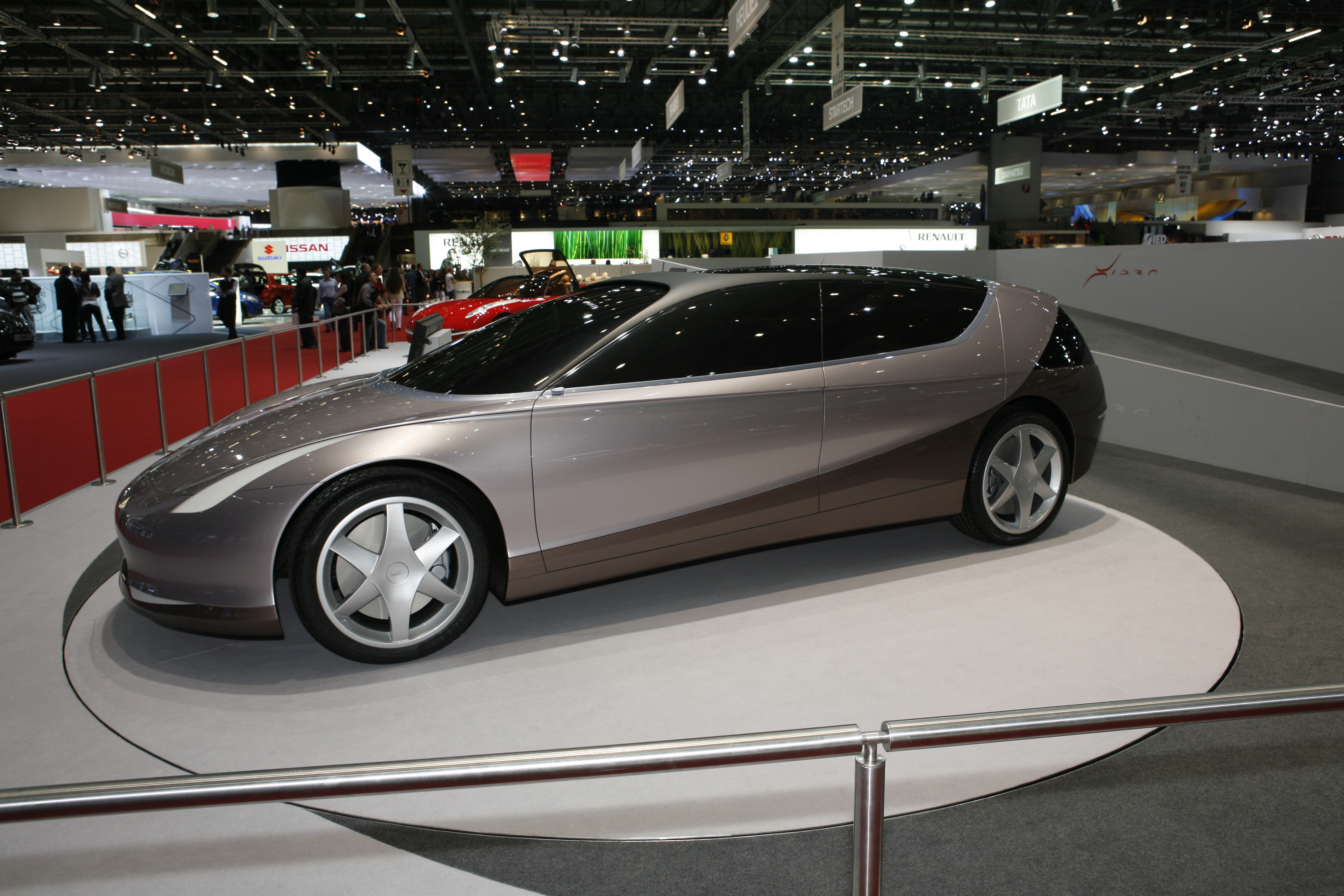 Fioravanti Hidra